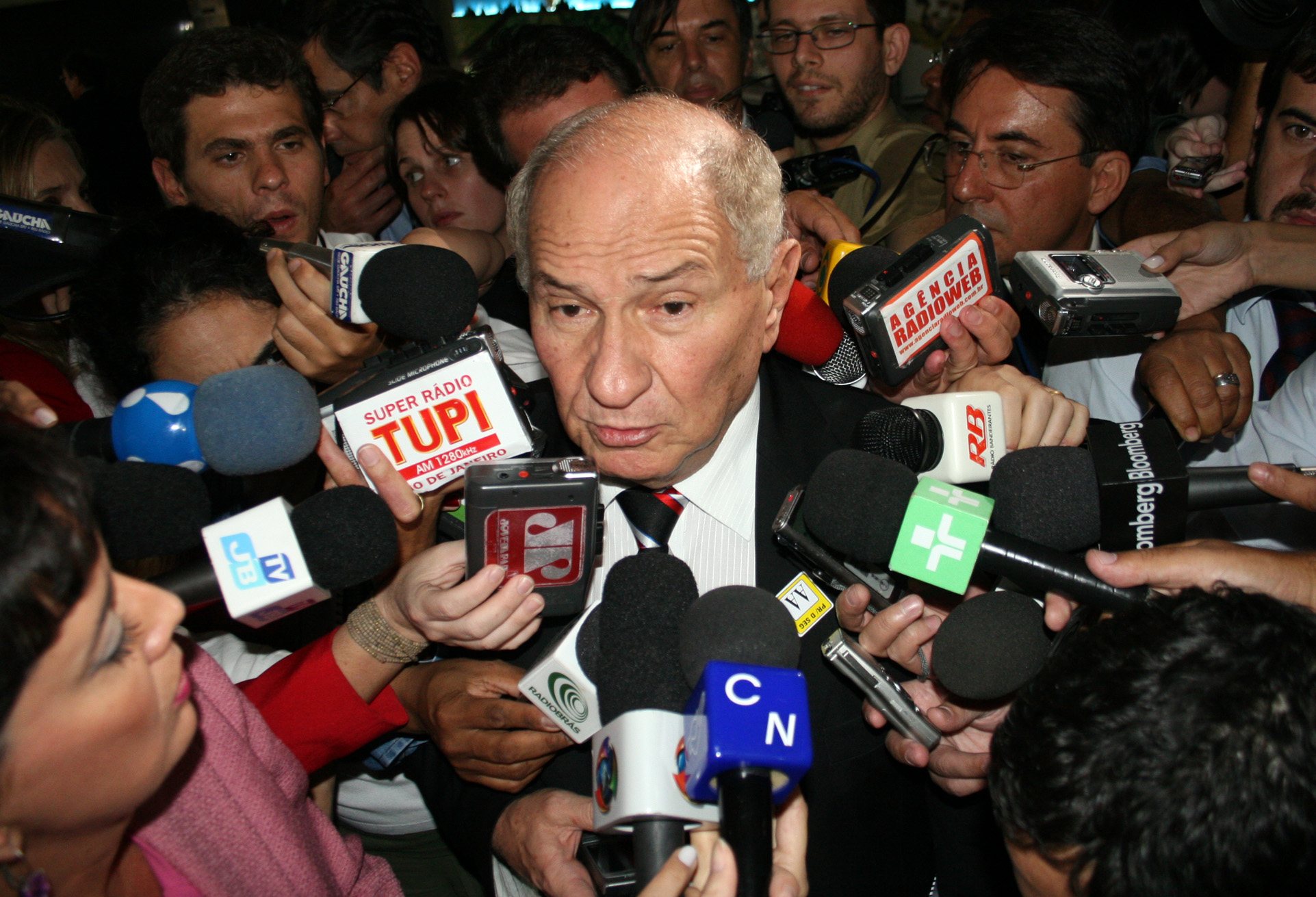 Brasília - Surrounded by reporters, the president of Infraero, Brigadier José Carlos Pereira, arrives at the Palácio do Planalto to attend a meeting with Minister Dilma Rousseff after the TAM Airlines Flight 3054 incident at Congonhas Airport.